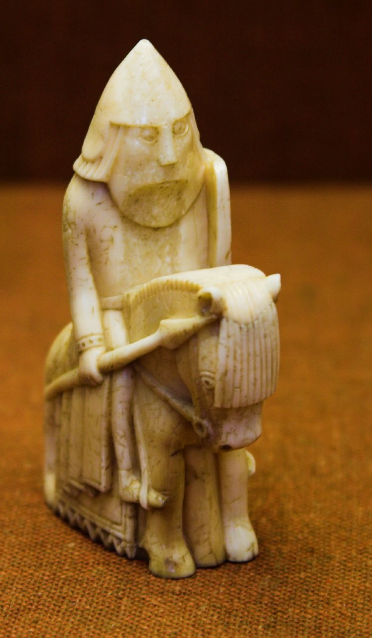 The Lewis Chessmen in the British Museum were probably made in Norway, about AD 1150-1200 Found on the Isle of Lewis, Outer Hebrides, Scotland The chess pieces consist of elaborately worked walrus ivory and whales' teeth in the forms of seated kings and queens, mitred bishops, knights on their mounts, standing warders and pawns in the shape of obelisks. Flickr data (on upload date): Camera: Canon EOS Kiss Digital Tags: chess, chessmen, lewischessmen, britishmuseum, museum, artifact, antiquities, old License: CC BY 2.0